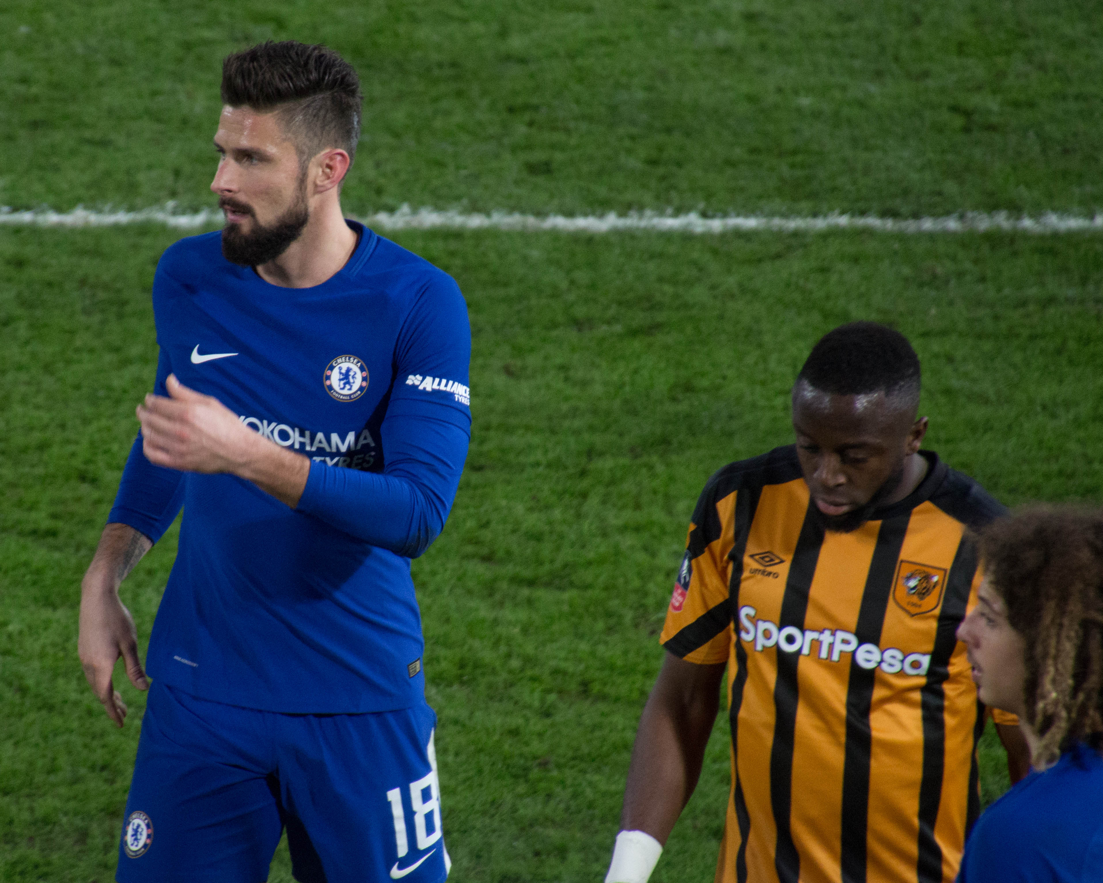 FA Cup 5th round 16.2.18